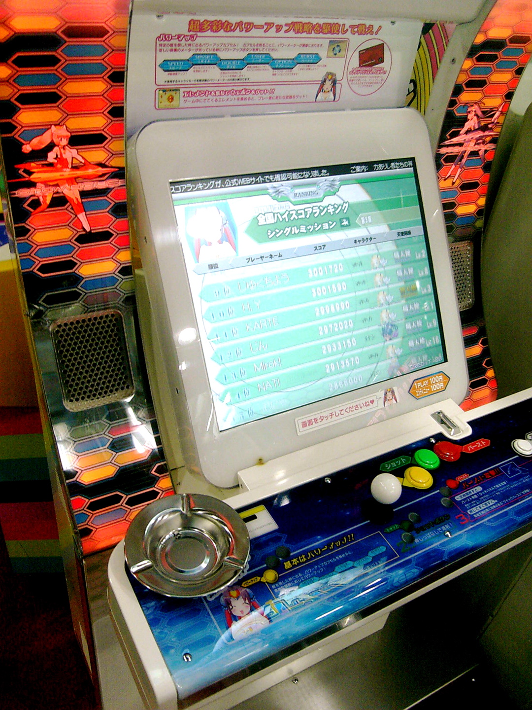 At first glance it looks like they have fashioned an iMac into a gaming cabinet at my local game center but on closer inspection it's a monitor that takes on the appearance of an iMac. For a start the forehead is too big and there's no iChin.